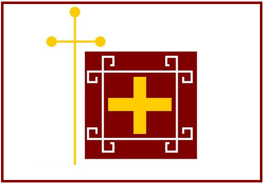 Karakachani 2